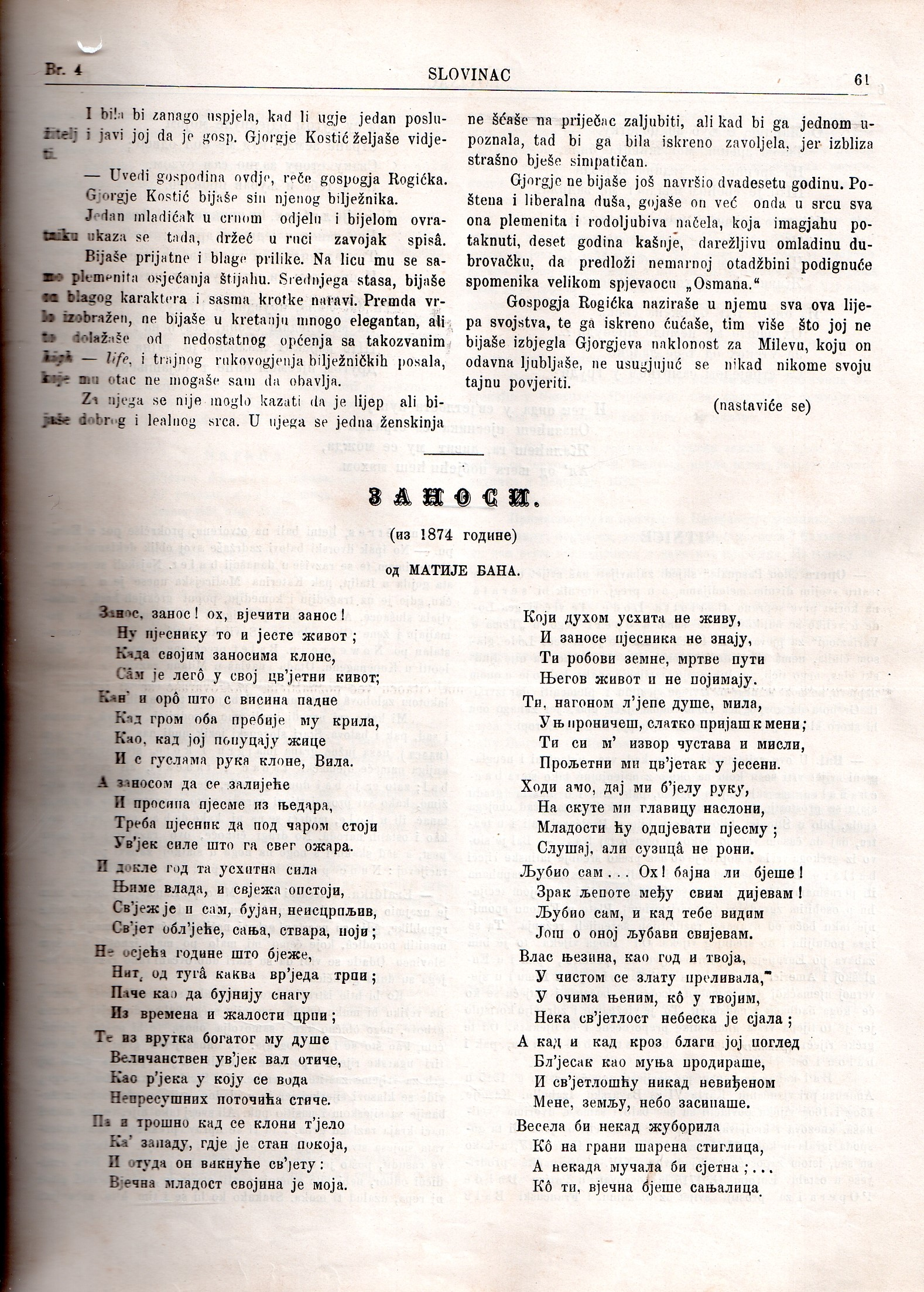 Magazine Slovinac number 4, page 61, for 1883, Dubrovnik. Srpski (latinica): Časopis Slovinac, broj 4, strana 61, za 1883. godinu, pesma Matije bana Zanosi, Dubrovnik.